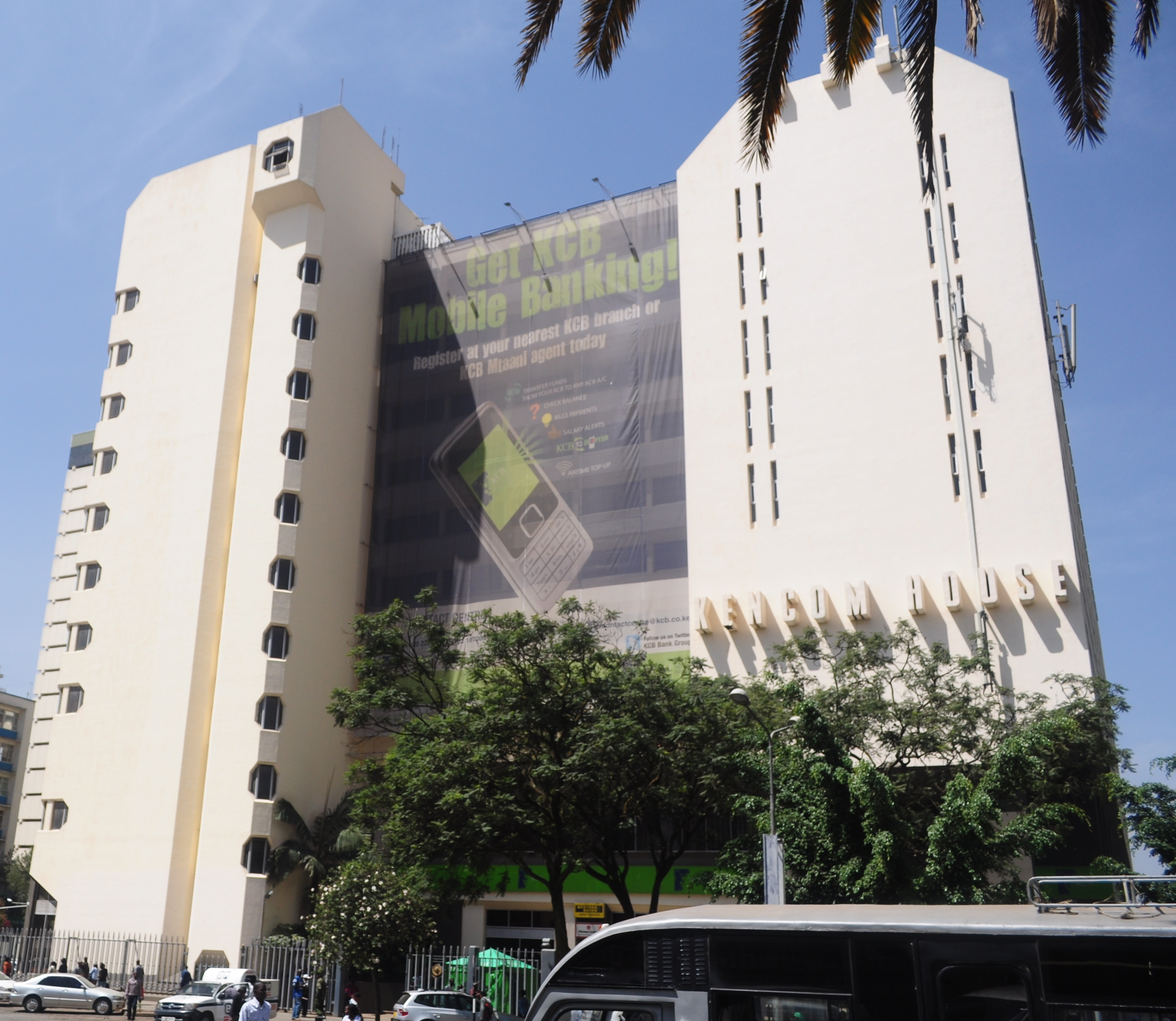 KENCOM House as viewed from Moi Avenue in Nairobi